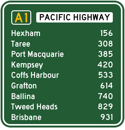 Distances to destinations along the Pacific Highway from Sydney.